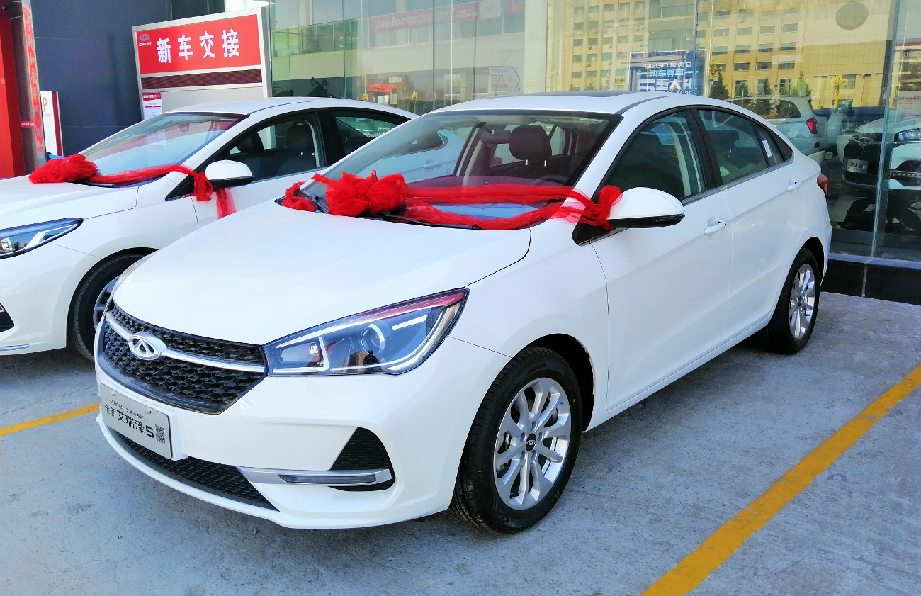 Chery Arrizo EX photographed in Hohhot, Inner Mongolia autonomous region, China.